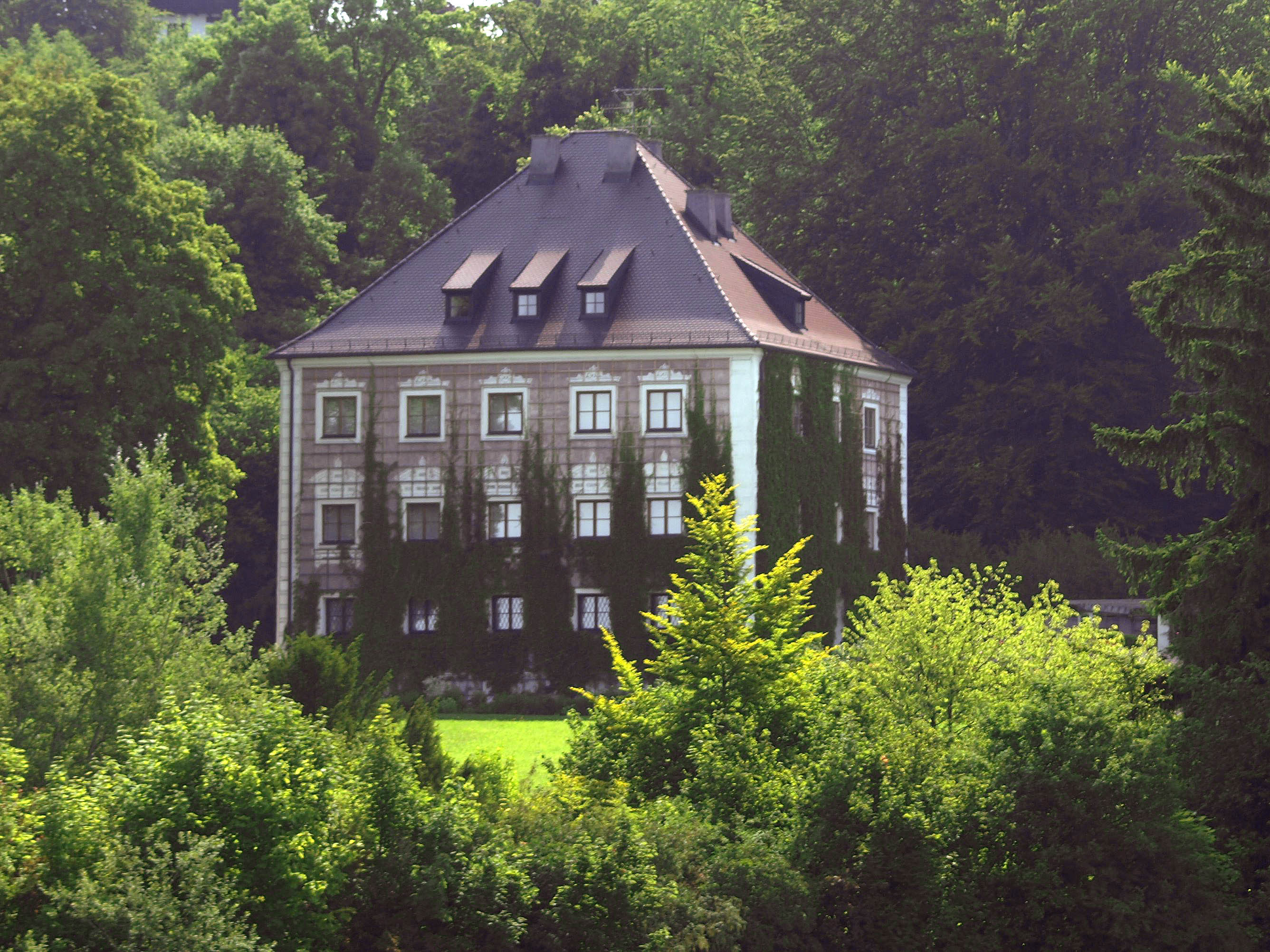 seaside view of Castle Berg at the Lake Starnberg